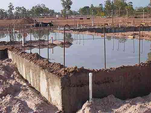 A concrete slab ponded while curing.